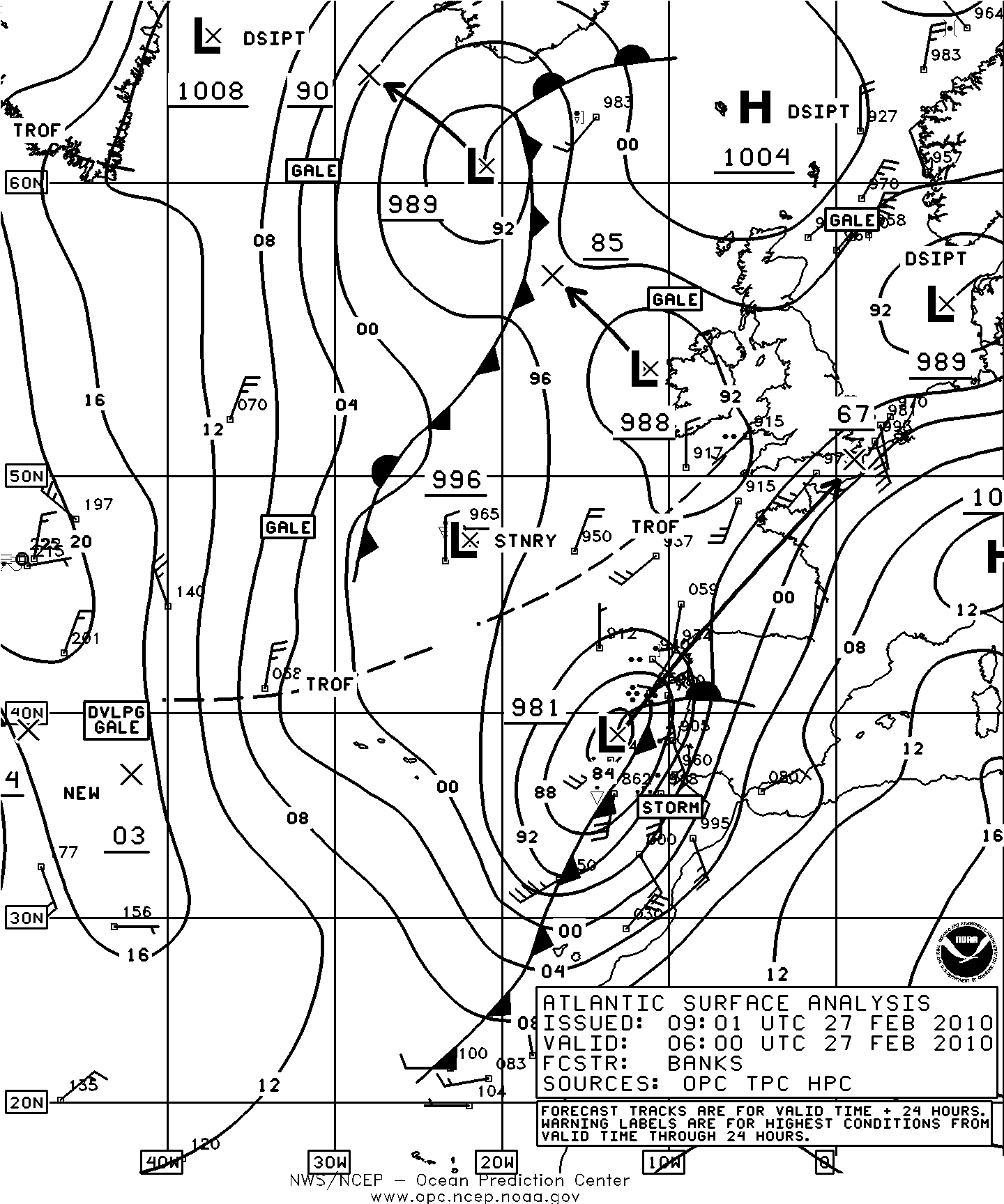 Eastern Atlantic surface analysis. Valid for 27 feb 2010 06:00 UTC + 24h